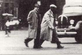 FBI photo of Capt. Fritz Duquesne meeting with double-agent William Sebolt in New York. c1940